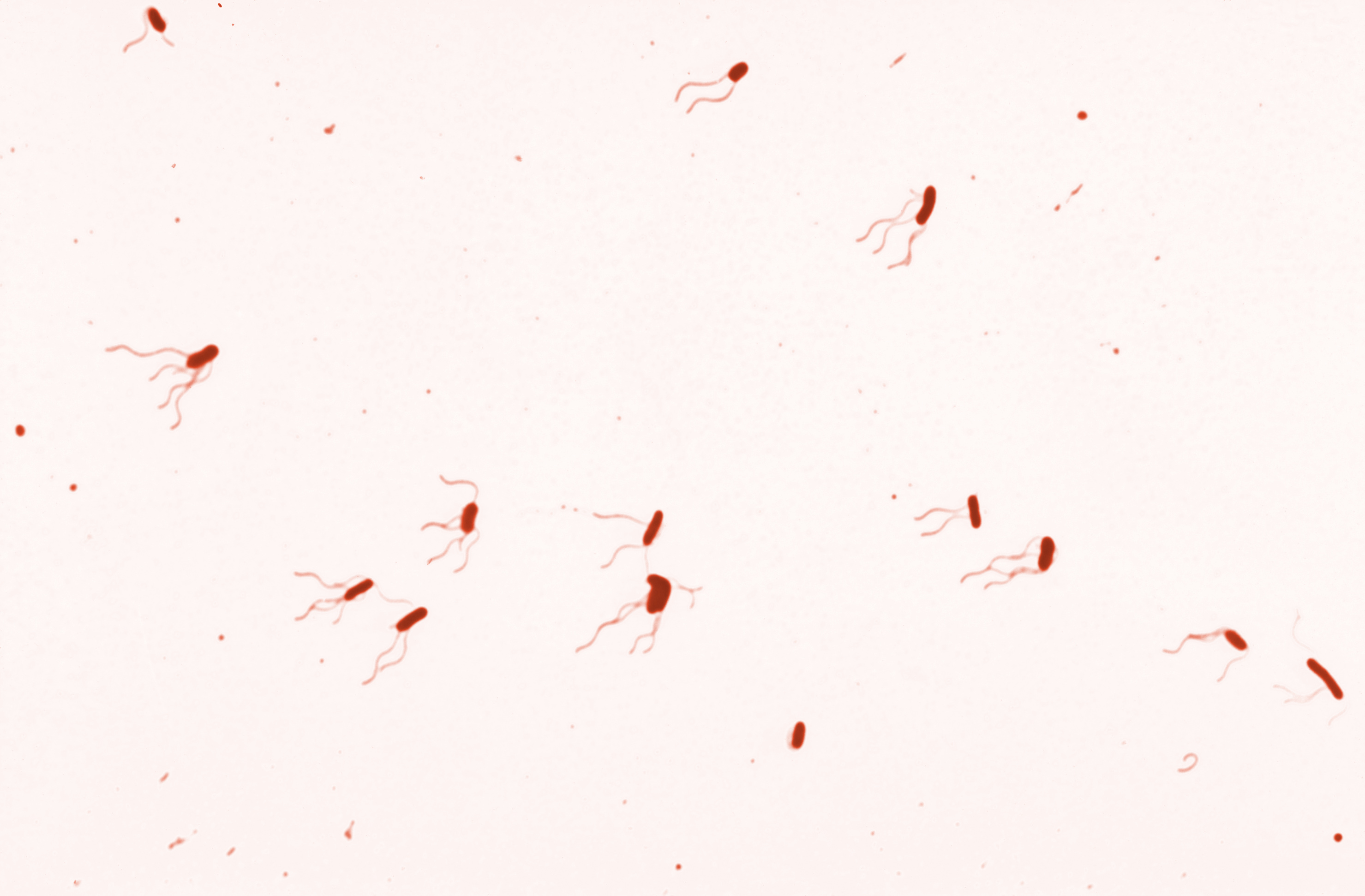 Digitally colorized Leifson flagella stained sample of Bordetella bronchiseptica. Obtained from the CDC Public Health Image Library. Image credit: CDC/Dr. William A. Clark (PHIL #1037), 1976.